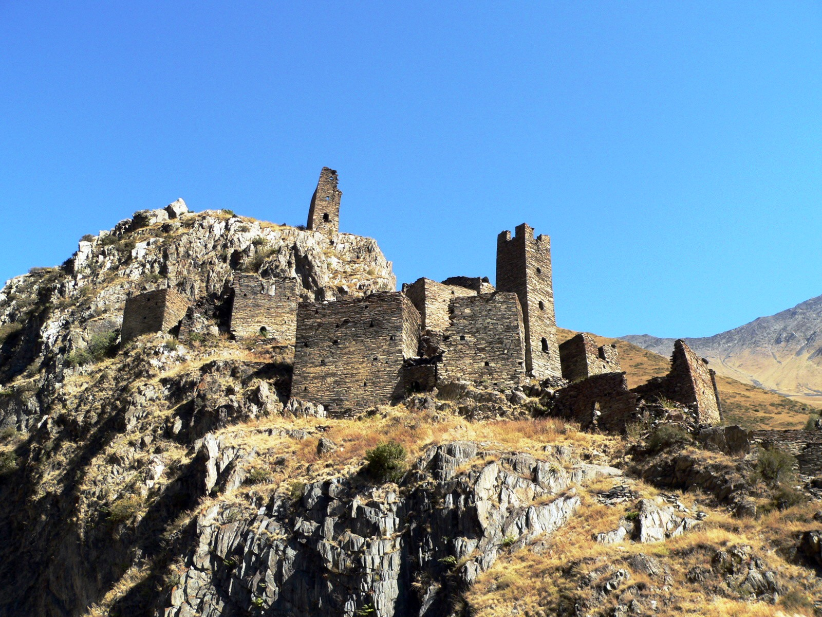 მუცო — სოფელი დუშეთის მუნიციპალიტეტში, მდინარე არდოტის წყლის (არღუნის მარჯვენა შენაკადი) ხეობაში